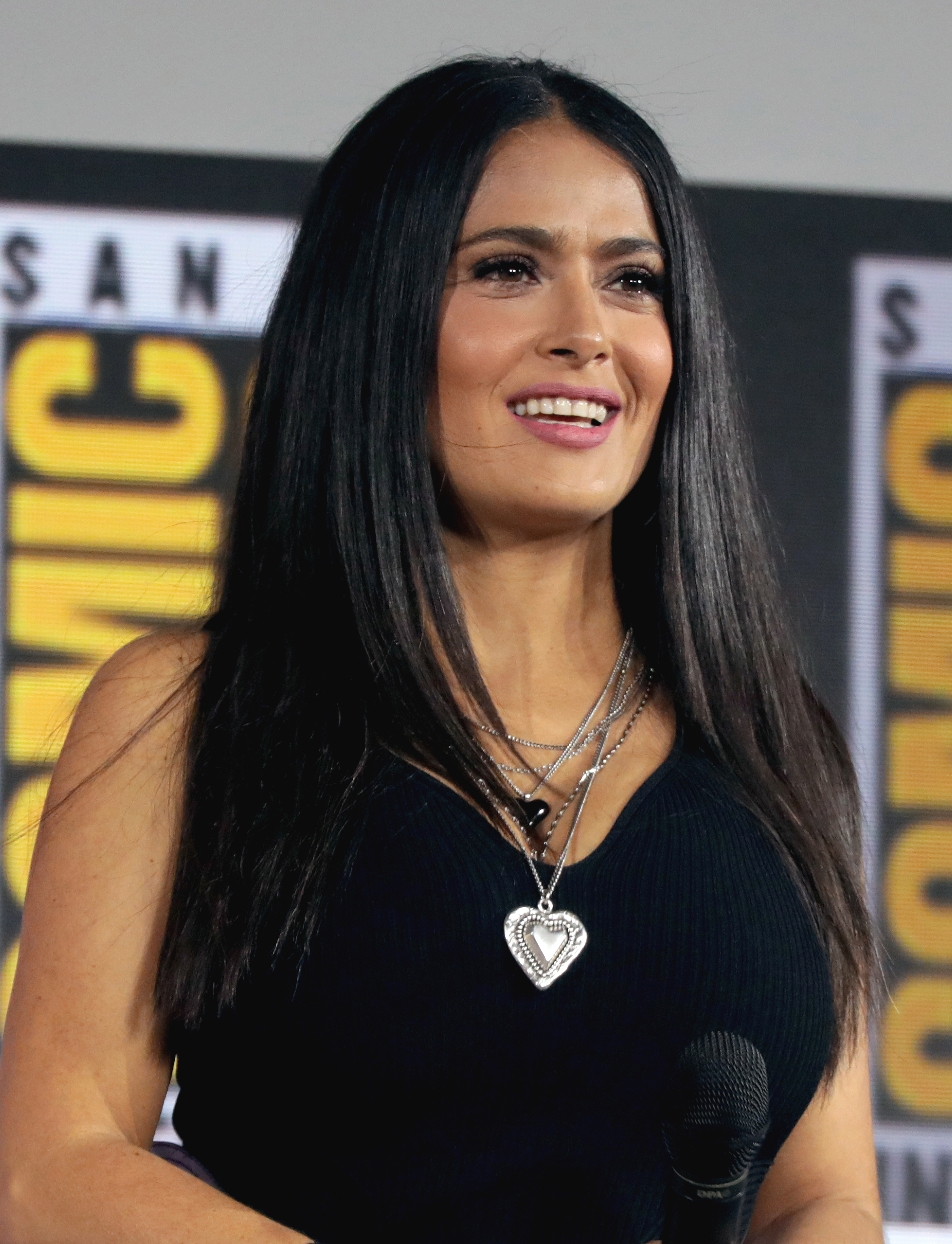 Salma Hayek speaking at the 2019 San Diego Comic-Con International in San Diego, California.